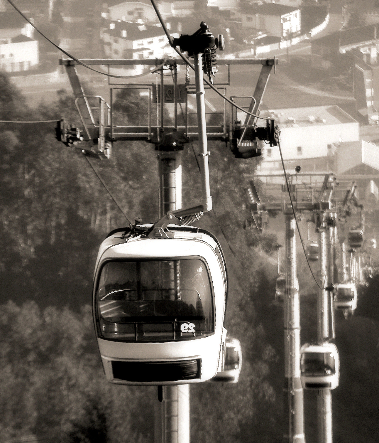 Cableway of Penha, in Guimarães.